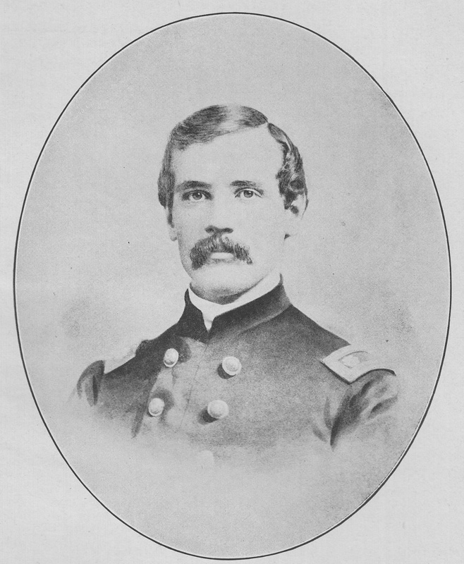 Francis Amasa Walker in the Civil War, from Captured! The Civil War experience of the Superintendent of the Census Francis Amasa Walker by Jason G. Gauthier, Historian, Public Information Office, U.S. Census Bureau